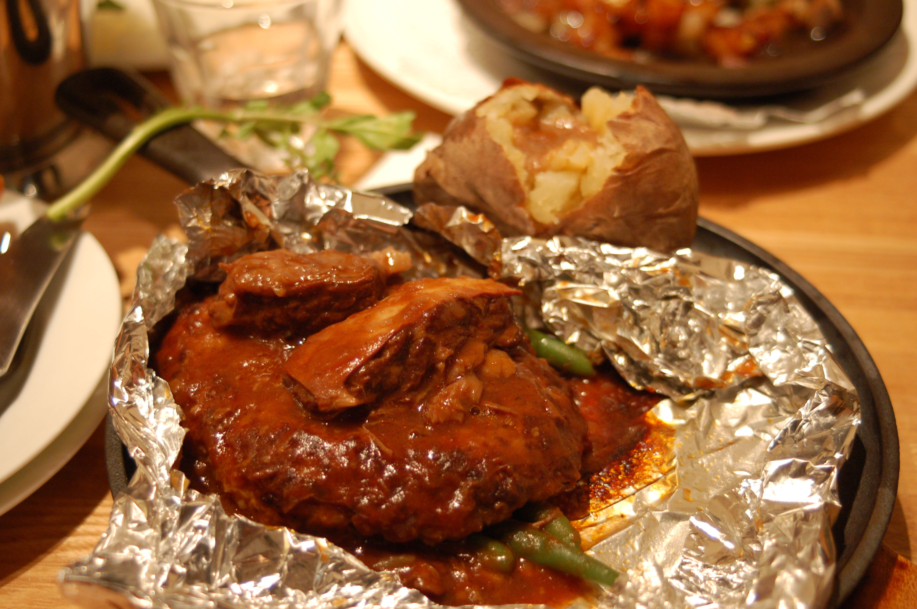 The "Hamburg steak" of Tsubame Grill, a famous hamburger steak house in Tokyo, Japan.